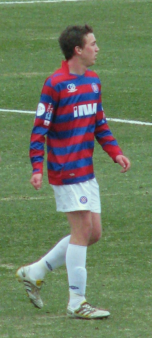 Mario Maloča, a Croatian football player.